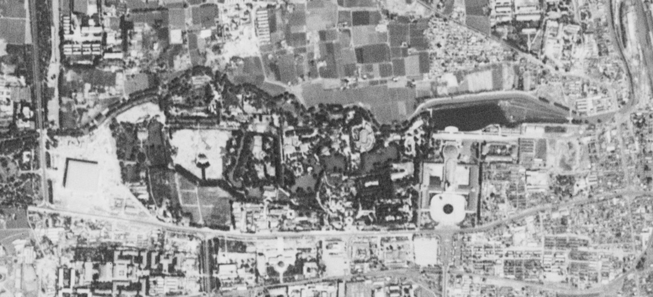 Beijing Zoo. Spatial tentatively corrected. 中文（中国大陆）: 北京动物园。空间上尝试性矫正过。